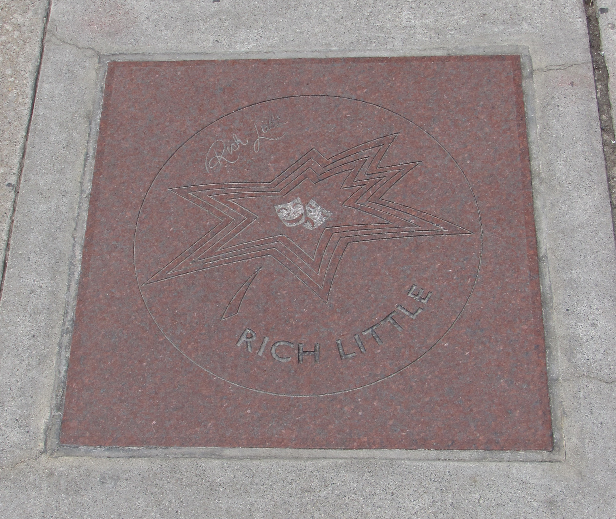 Rich Little's star on Canada's Walk of Fame